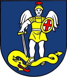 Armorial bearing of Porubka village (Zilina district)